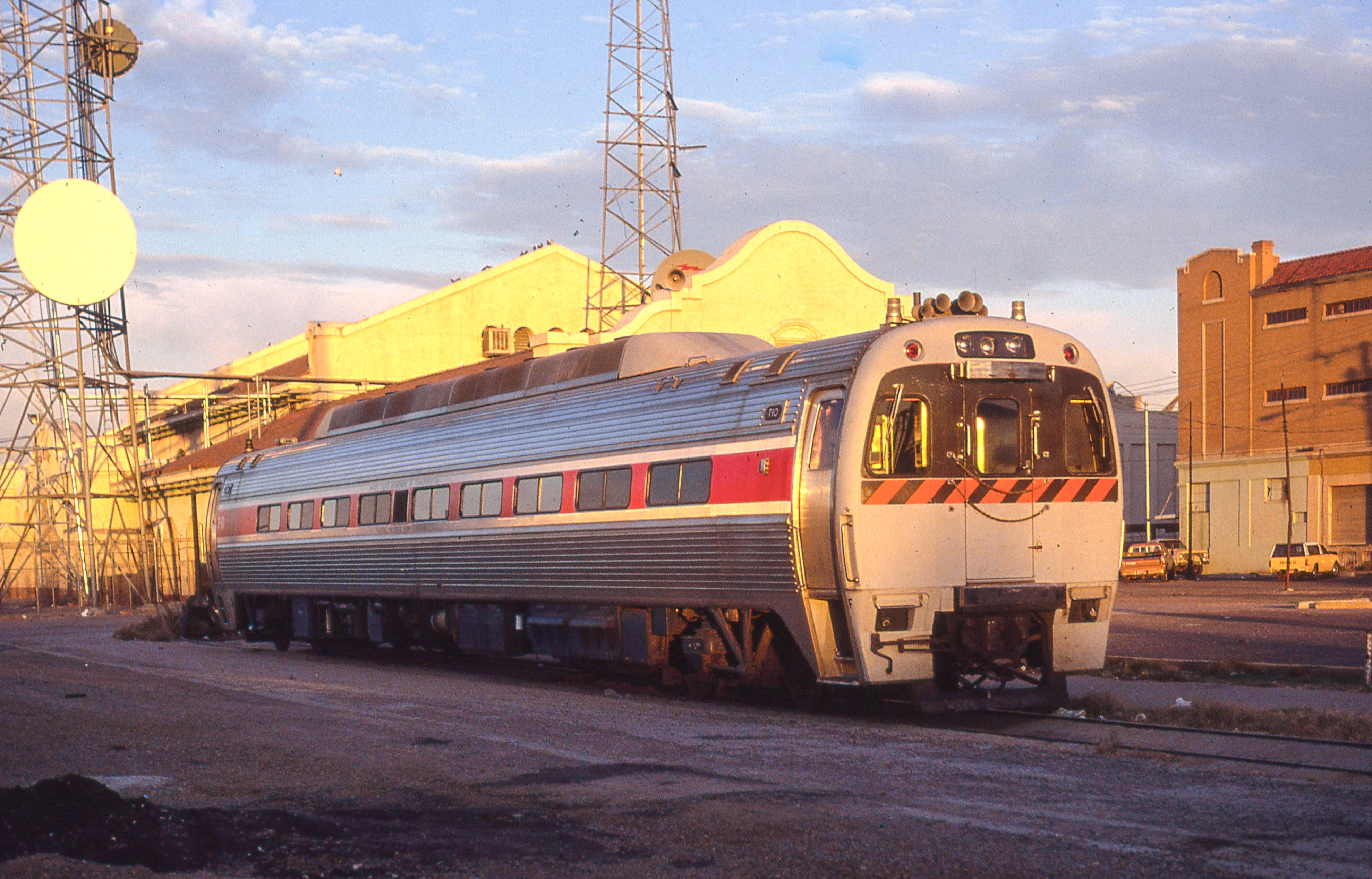 SPV 2000 DOT inspection car. Spotted on the old private car track. Phoenix Union Station.